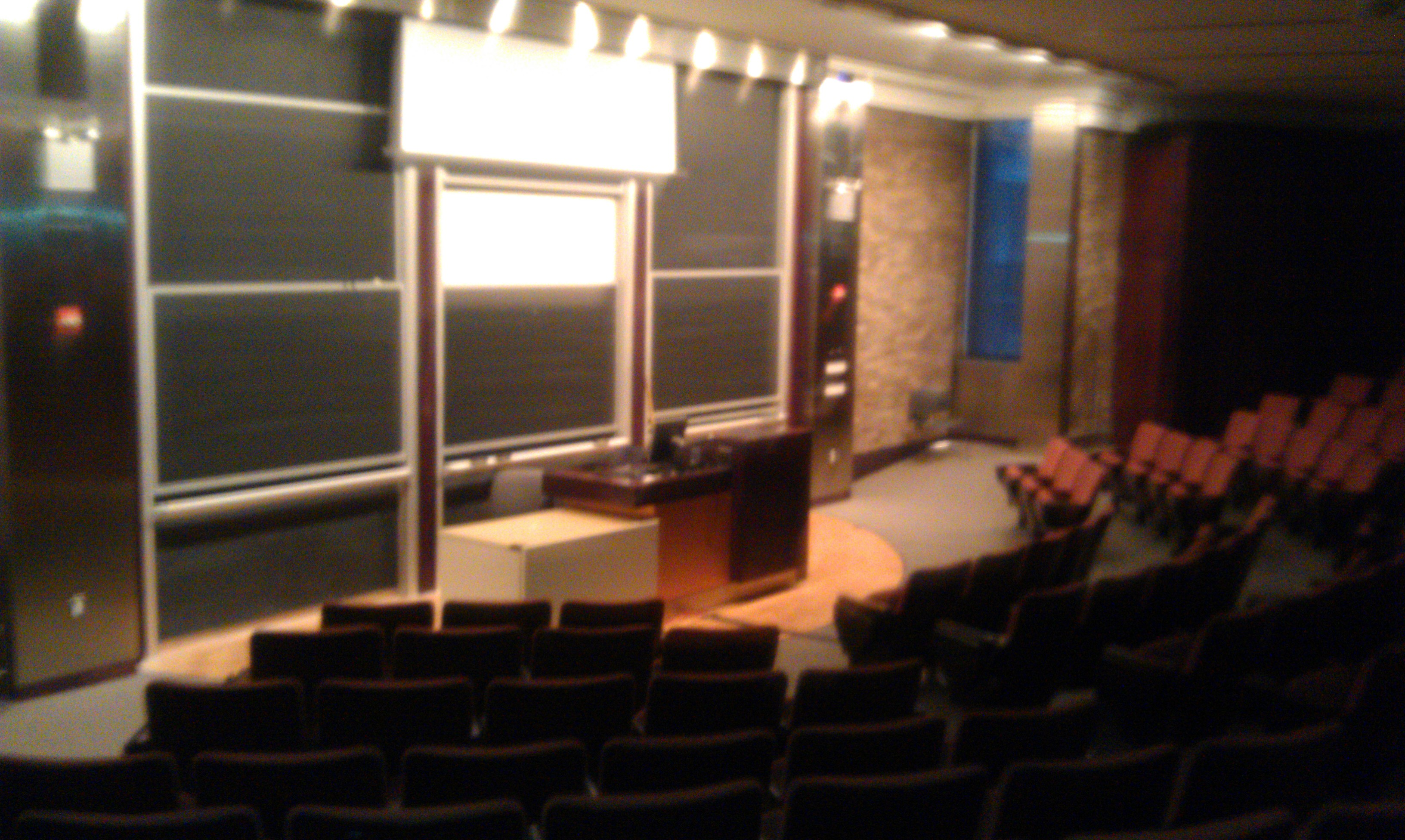 This is the 1st floor lecture hall at Warren Weaver Hall, CIMS, NYU.